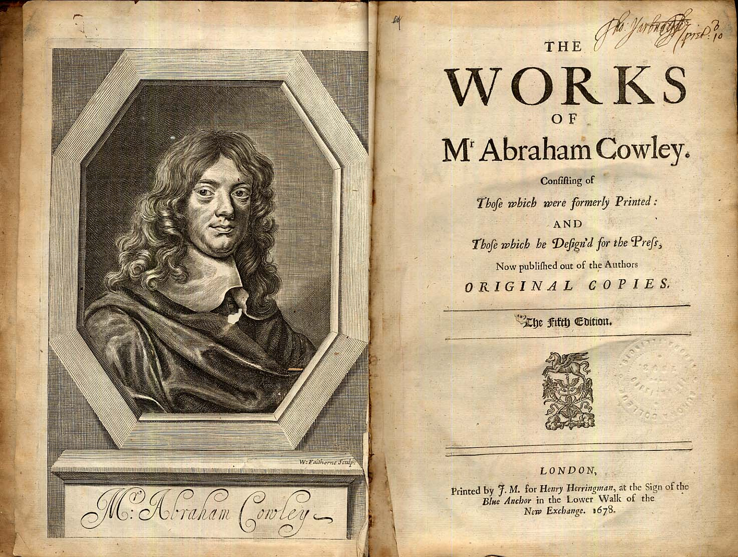 Frontispiece and Titlepage to the 1678 Edition of the Collected Works of Abraham Cowley